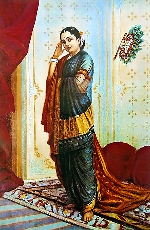 Portrait of the courtesan Vasanthasena, famously depicted in Śūdraka's Sankrit play Mṛcchakaṭika (The Little Clay Cart).